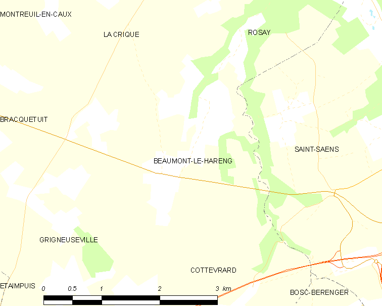 Map of French municipality Beaumont-le-Hareng